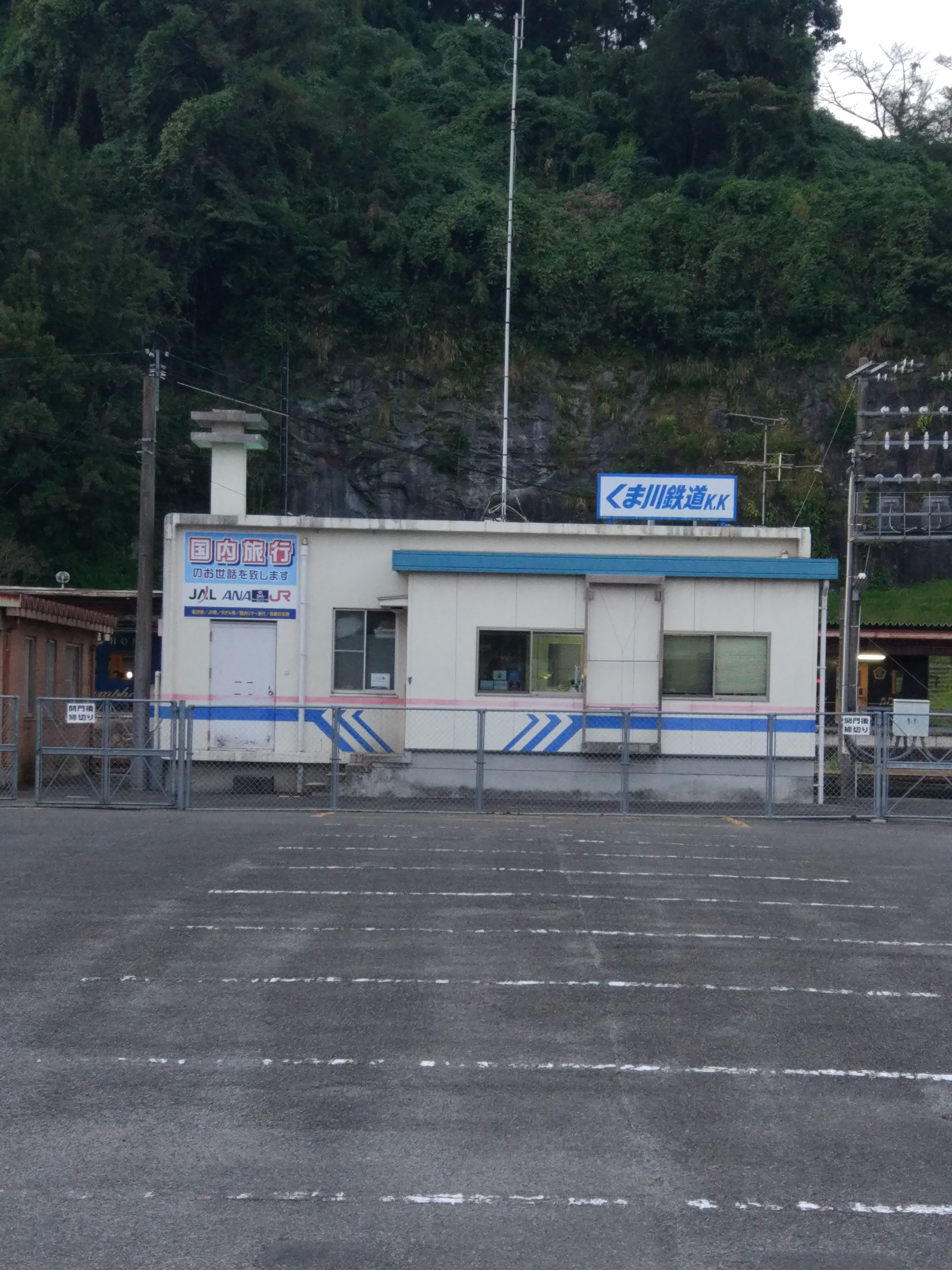 Kumagawa Rail Road Co., Ltd. head office in hitoyoshi-city ,kumamoto pref ,JAPAN